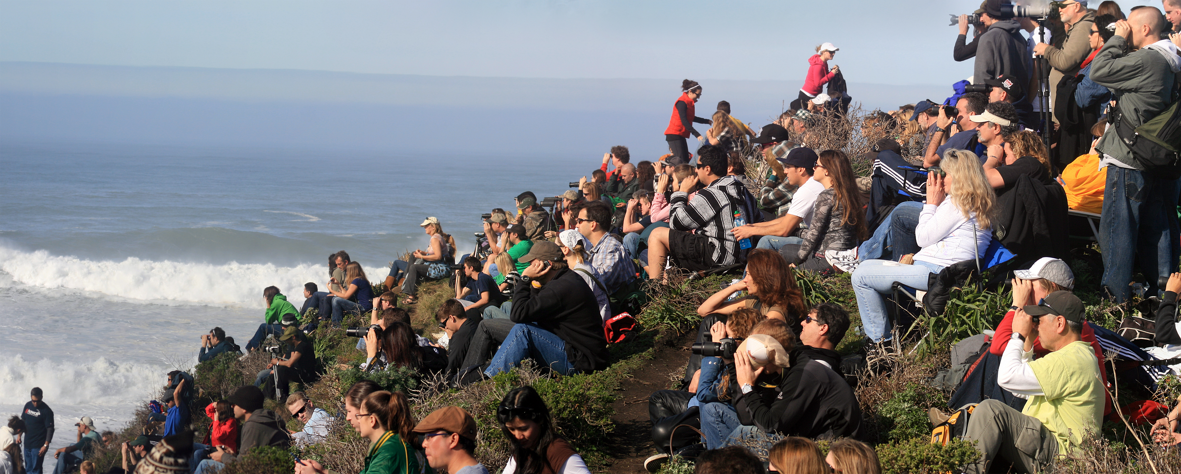 Spectators are watching Mavericks waves surfing contest